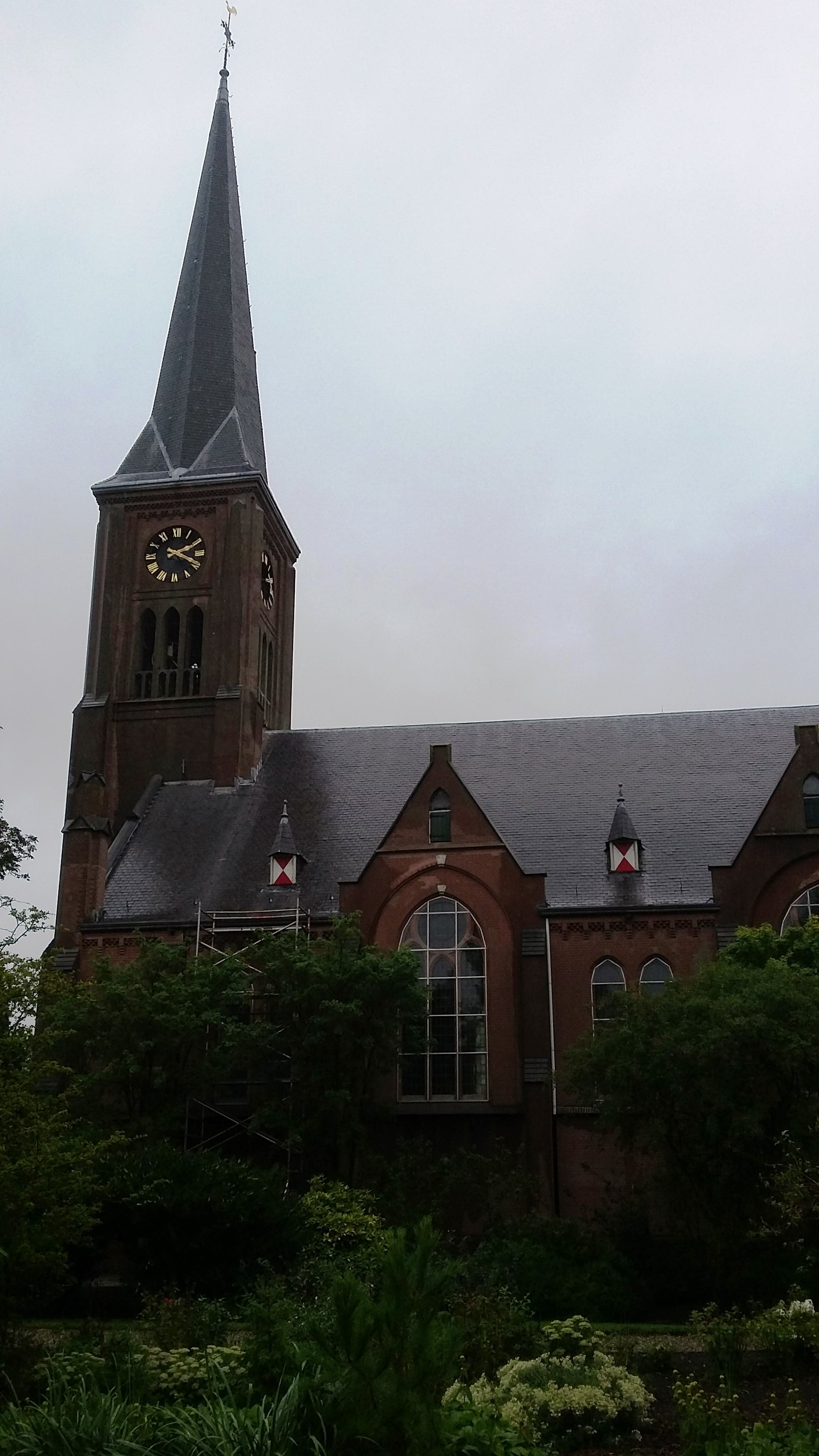 Maria Magdalenakerk - t Kalf, Zaandam, The Netherlands. Build by Evert Margry 1885-1887